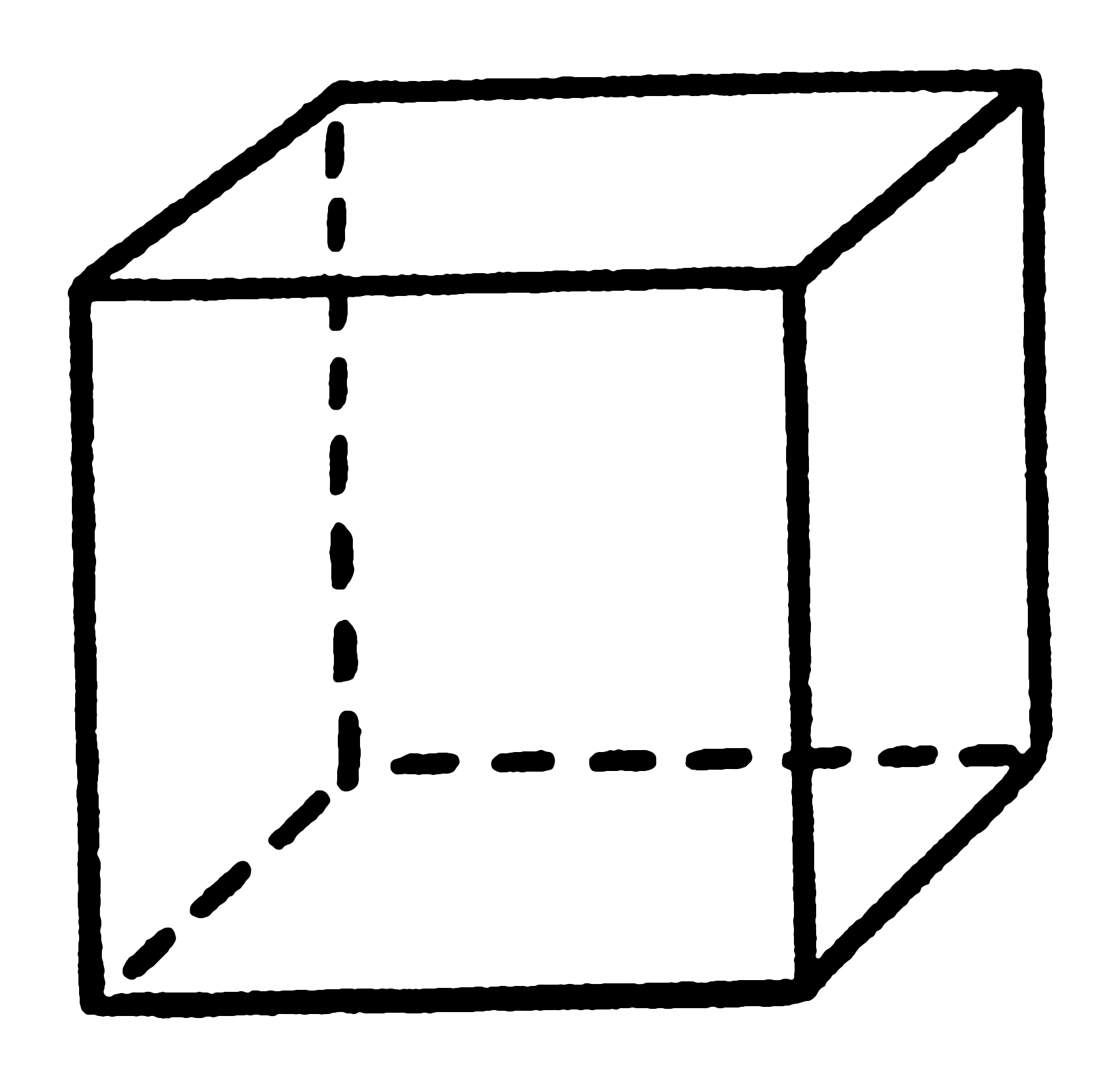 Line art drawing of a cube.